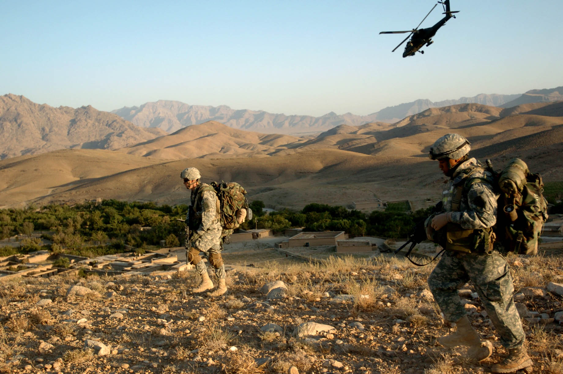 An Apache helicopter provides protection from the air while paratroopers from Company A, 1st Battalion, 325th Airborne Infantry Regiment, move into position shortly after air assaulting into Lwar Kowndalan, Afghanistan, Oct. 1 to start a five-day mission. Photo by Spc. Mike Pryor, USA